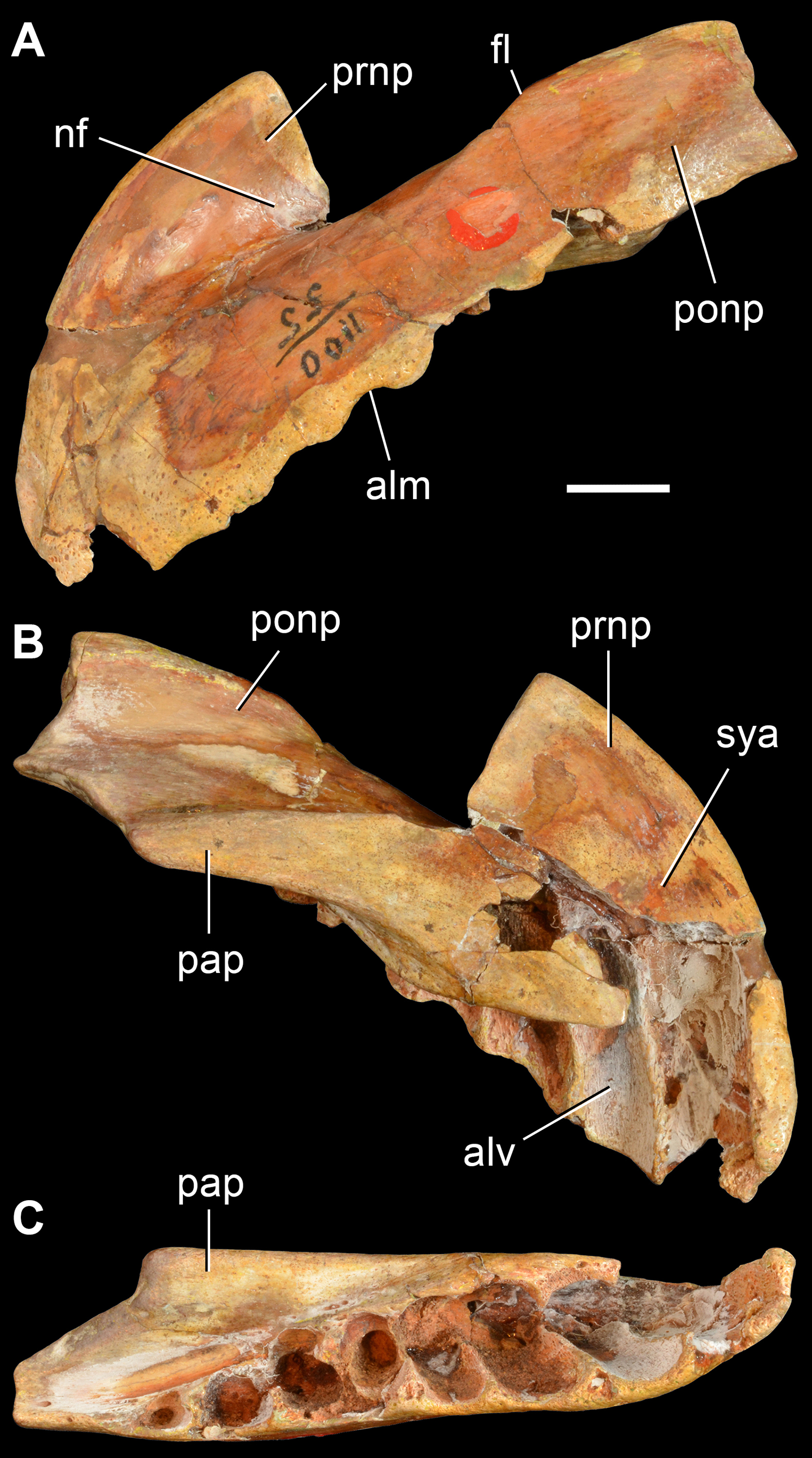 Archosaurus rossicus, a proterosuchid archosauriform from the latest Permian of Russia. Left premaxilla (PIN 1100/55, holotype) in lateral (A), medial (B) and ventral (C) views. Abbreviations: alm, alveolar margin; alv, alveolus; fl, lateral flange; nf, narial fossa; pap, palatal process; ponp, postnarial process; prnp, prenarial process; sya, symphyseal area. Scale bar equals 1 cm.